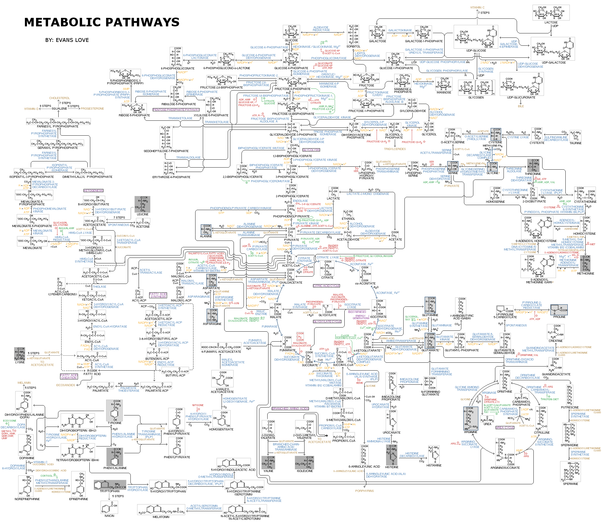 This is a diagram depicting a large set of human metabolic pathways.